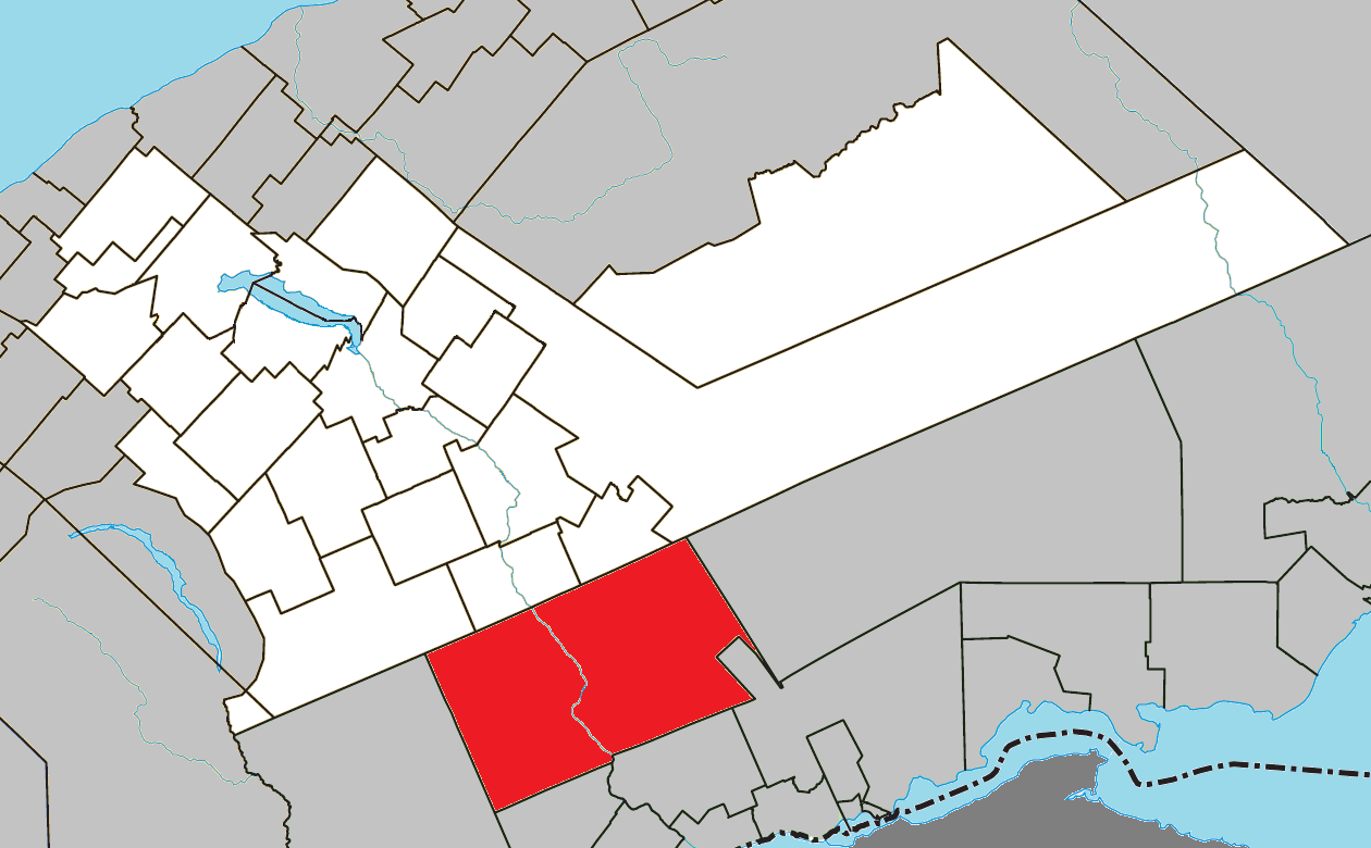 Location of Routhierville, Quebec within La Matapédia Regional County Municipality.